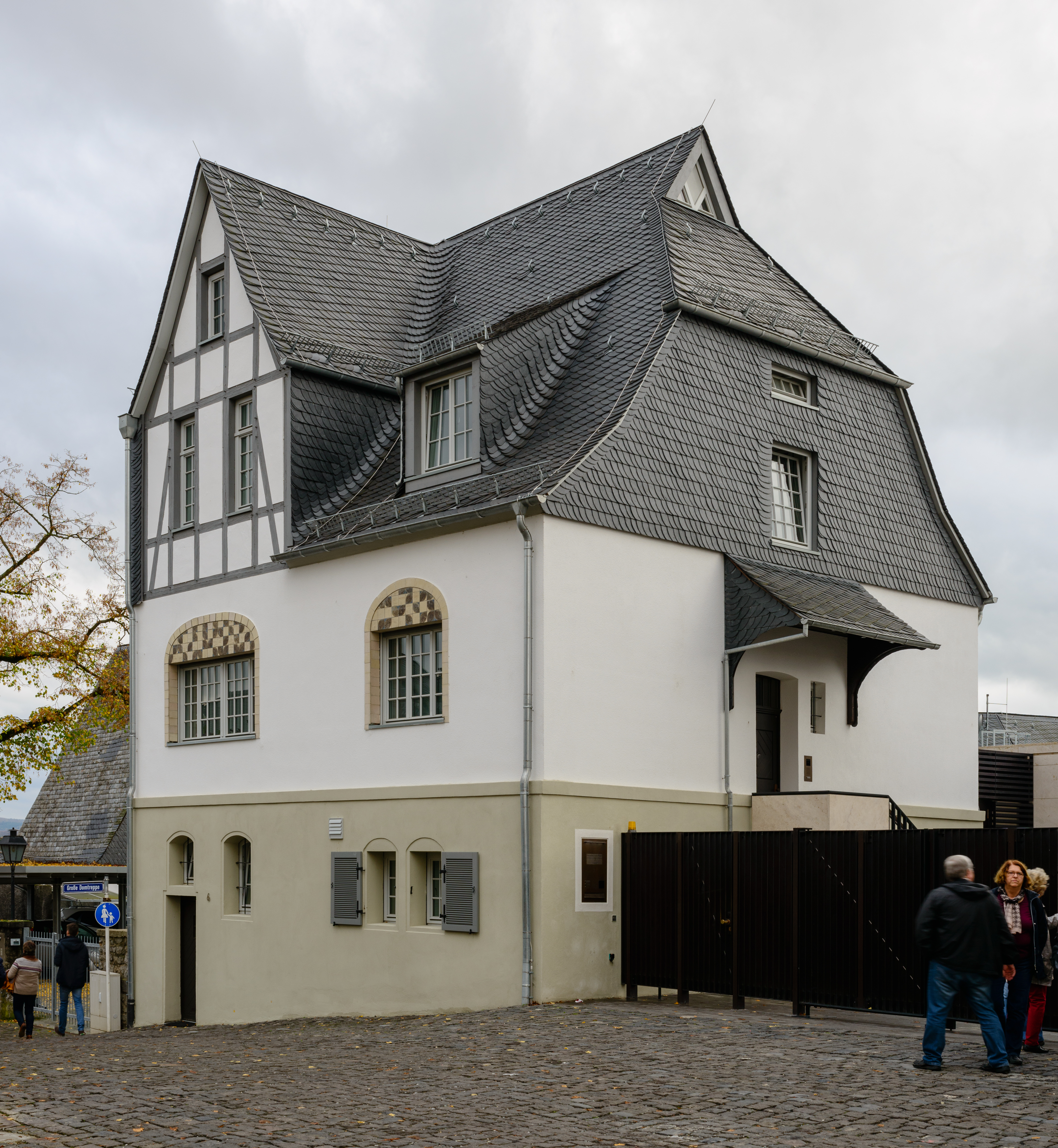 Residence of the bishop of Limburg (after rebuilding during the tenure of Franz-Peter Tebartz-van Elst).